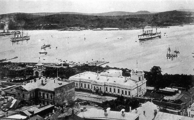 Cruisers "Dmitry Donskoy" and "Rossia" in the Golden Horn Bay, Vladivostok, 1903.